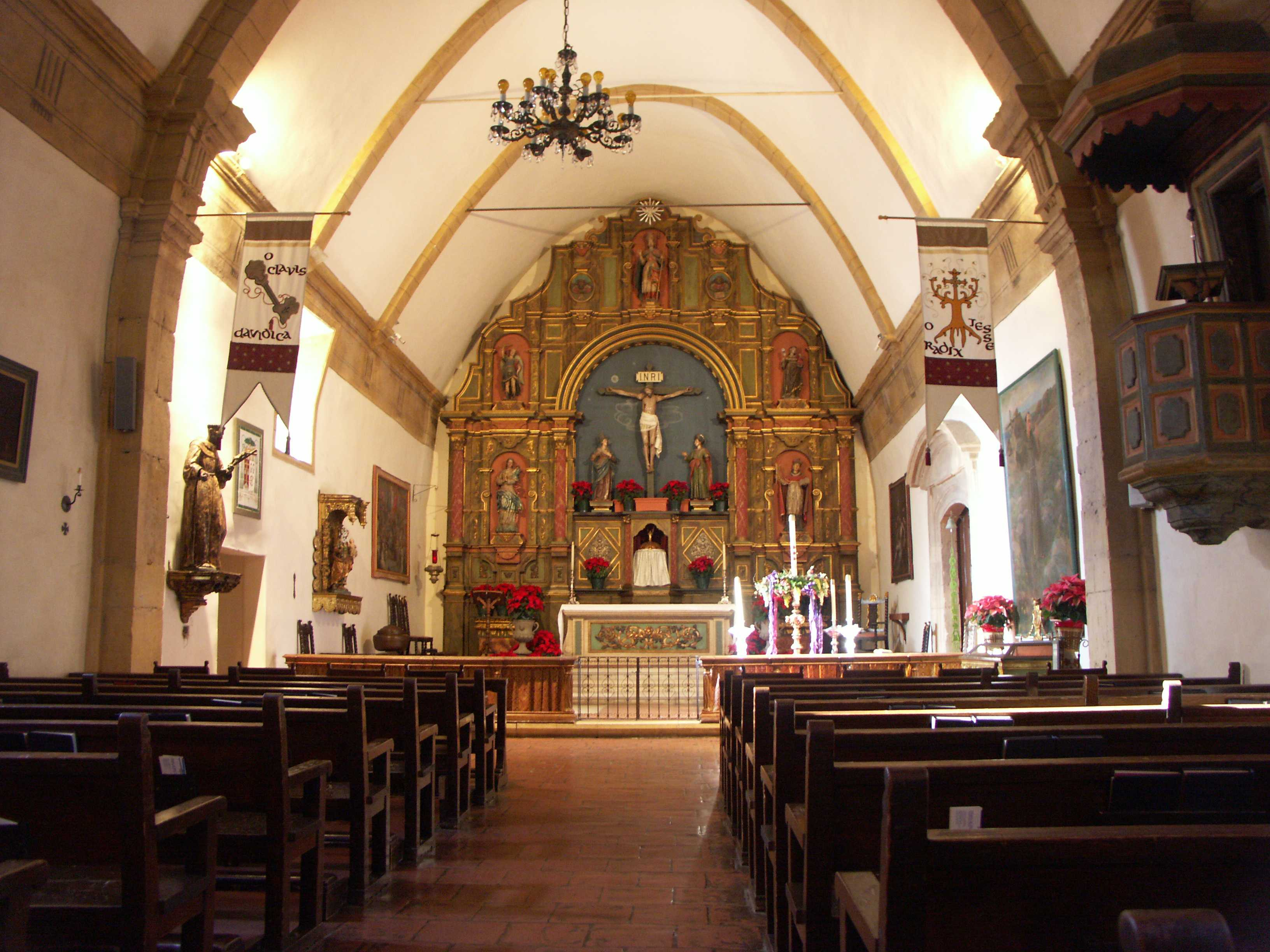 Inside the church - view of the main altar - Mission San Carlos Borromeo - Carmel - California